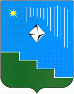 New coat of arms (2009) of town Udachny, Sakha Republic, Russia